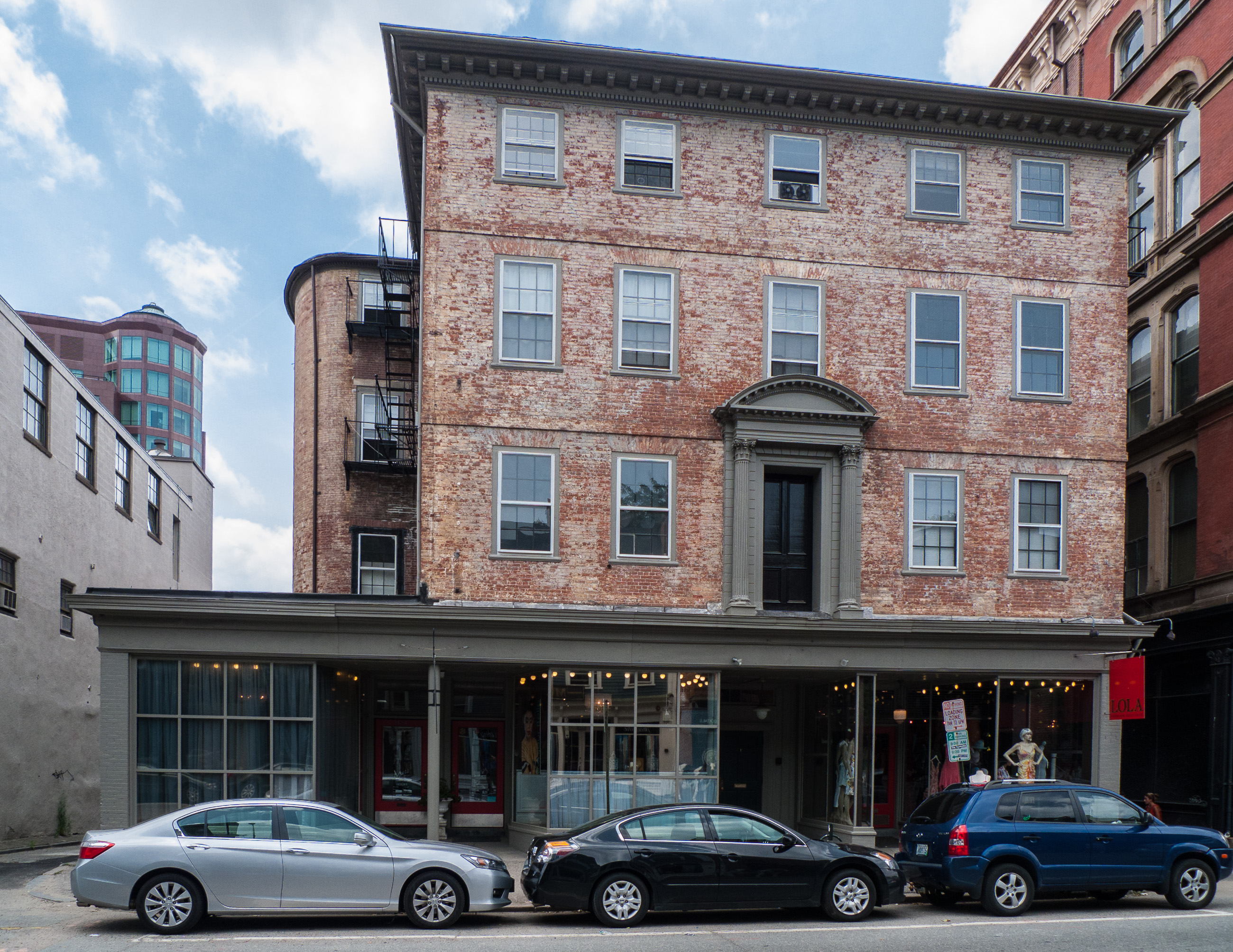 Joseph and William Russell House is an historic house at 118 North Main Street in the College Hill area of Providence, Rhode Island. It is a 3-1/2 story brick structure, built in 1772.